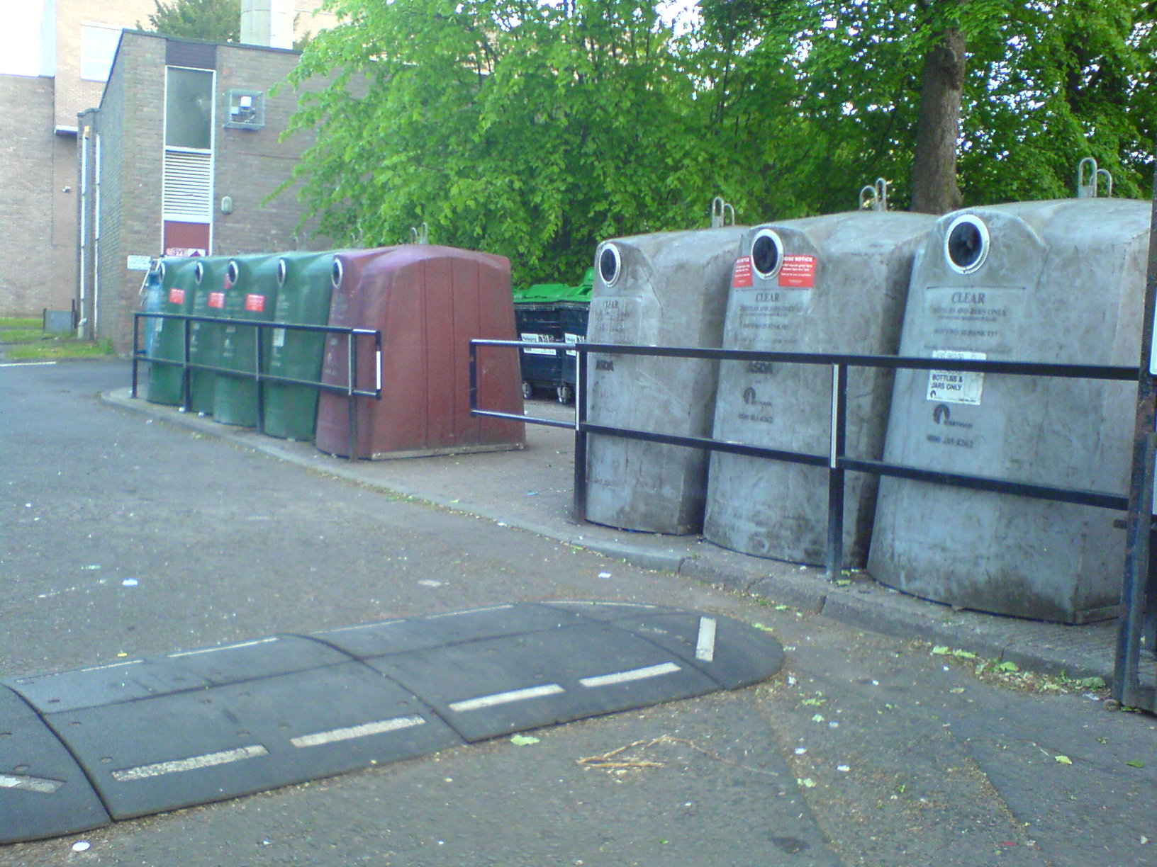 Glass recycling in Edinburgh